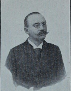 Portrait of Dohmann István